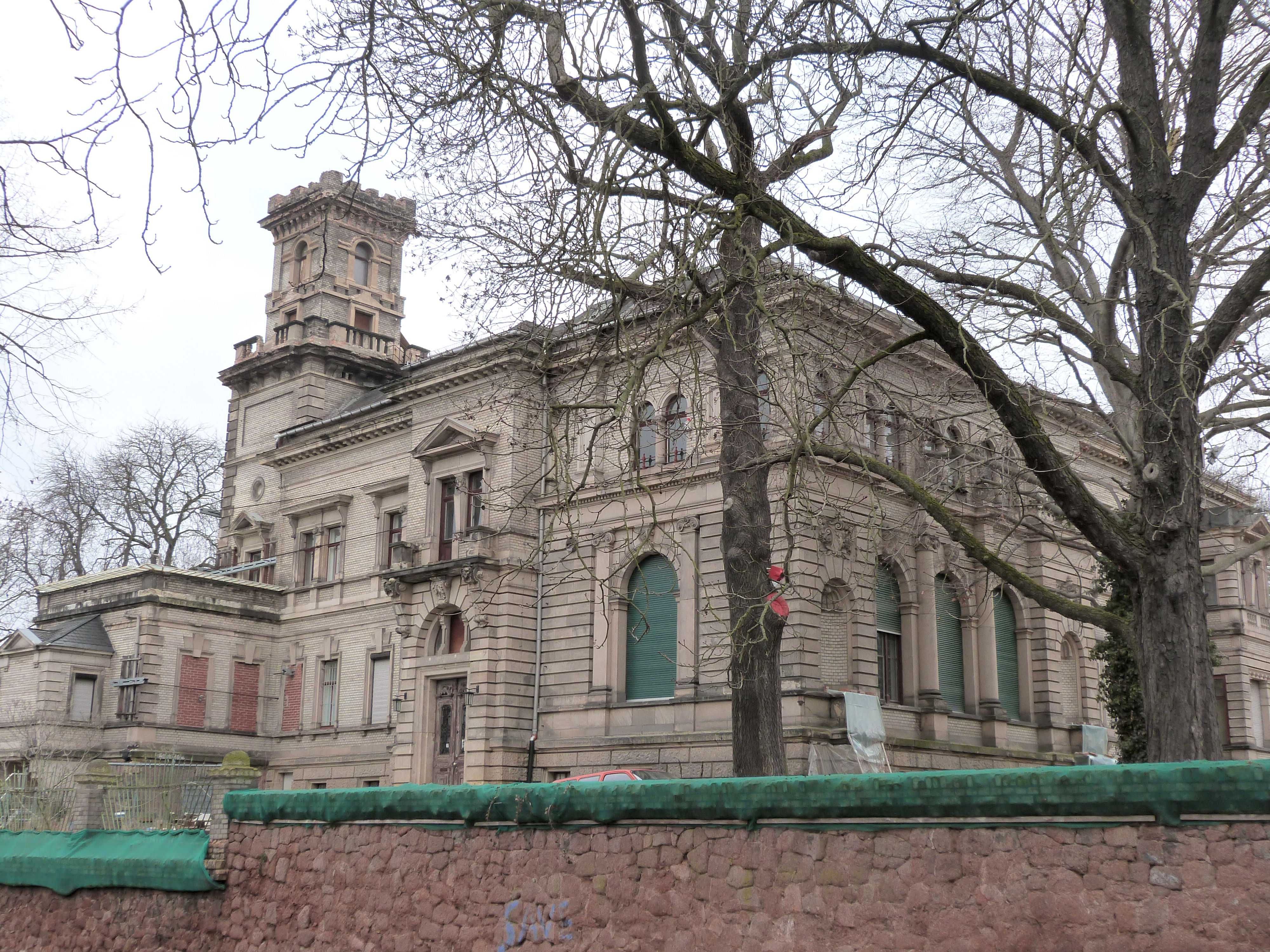 Lehmann Villa, Burgstrasse No. 46, Halle (Saale)